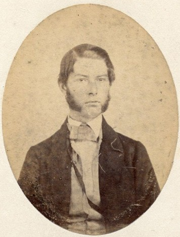 Photograph of Caleb S. Pratt 1832-1861. Mr. Pratt was born in Massachusetts but moved to Lawrence, Kansas in 1854 with the New England Emigrant Aid Company, an anti-slavery group. He was Commissioned Second Lieutenant of Company D of Kansas 1st Infantry Regiment in June, 1861 and was killed in the battle of Wilson's Creek, Missouri on August 10, 1861. The city Pratt, Kansas and the county Pratt County, Kansas are named for him. This photograph was probably taken shortly before his move to Kansas